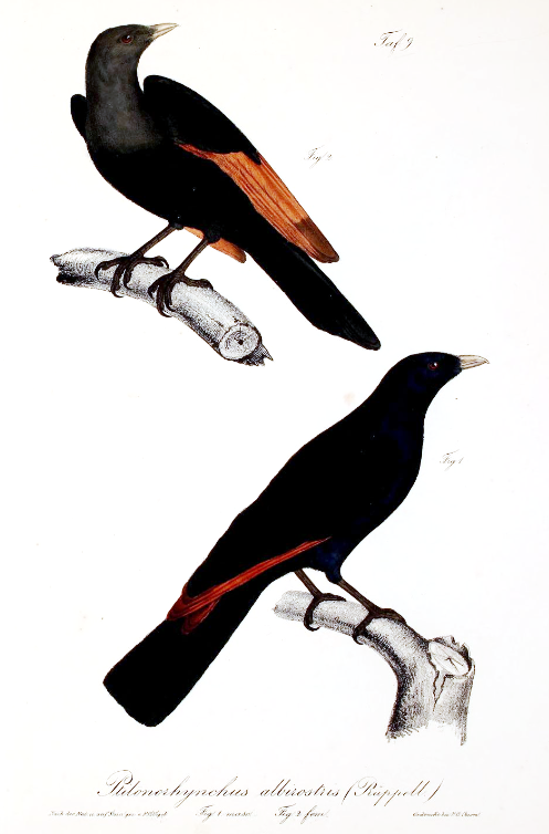 Engraving of white-billed starlings (male on top, female bottom).